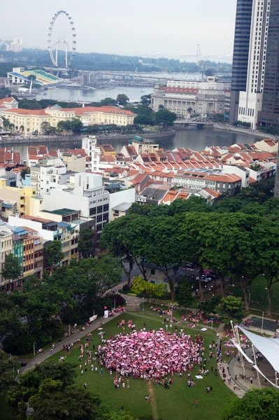 An aerial view of participants of the inaugural Pink Dot SG 2009 dressed in pink and massed at Speakers' Corner, Singapore.